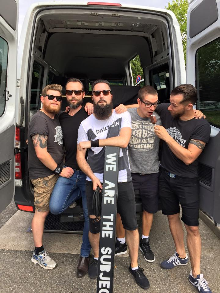 German Rock band "Walter Subject" on Tour in Germany 2015